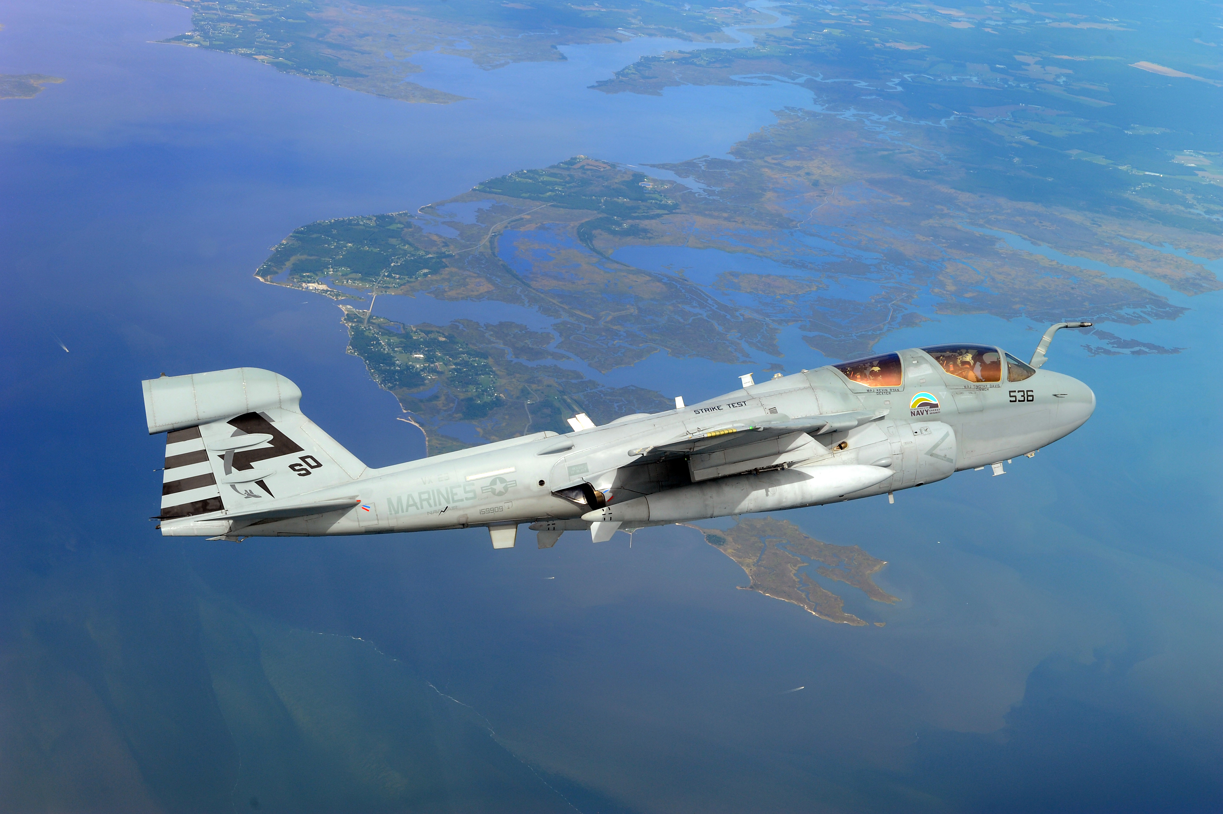 PATUXENT RIVER, Md. (Sept. 16, 2011) An EA-6B Prowler from the "Salty Dogs" of Air Test and Evaluation Squadron 23 (VX-23) flies over Southern Maryland on a biofuel blend of JP-5 aviation fuel and camelina oil. The Prowler successfully completed its inaugural biofuel flight here continuing the Navy's surge toward energy independence. (U.S. Navy photo by Kelly Schindler/Released)